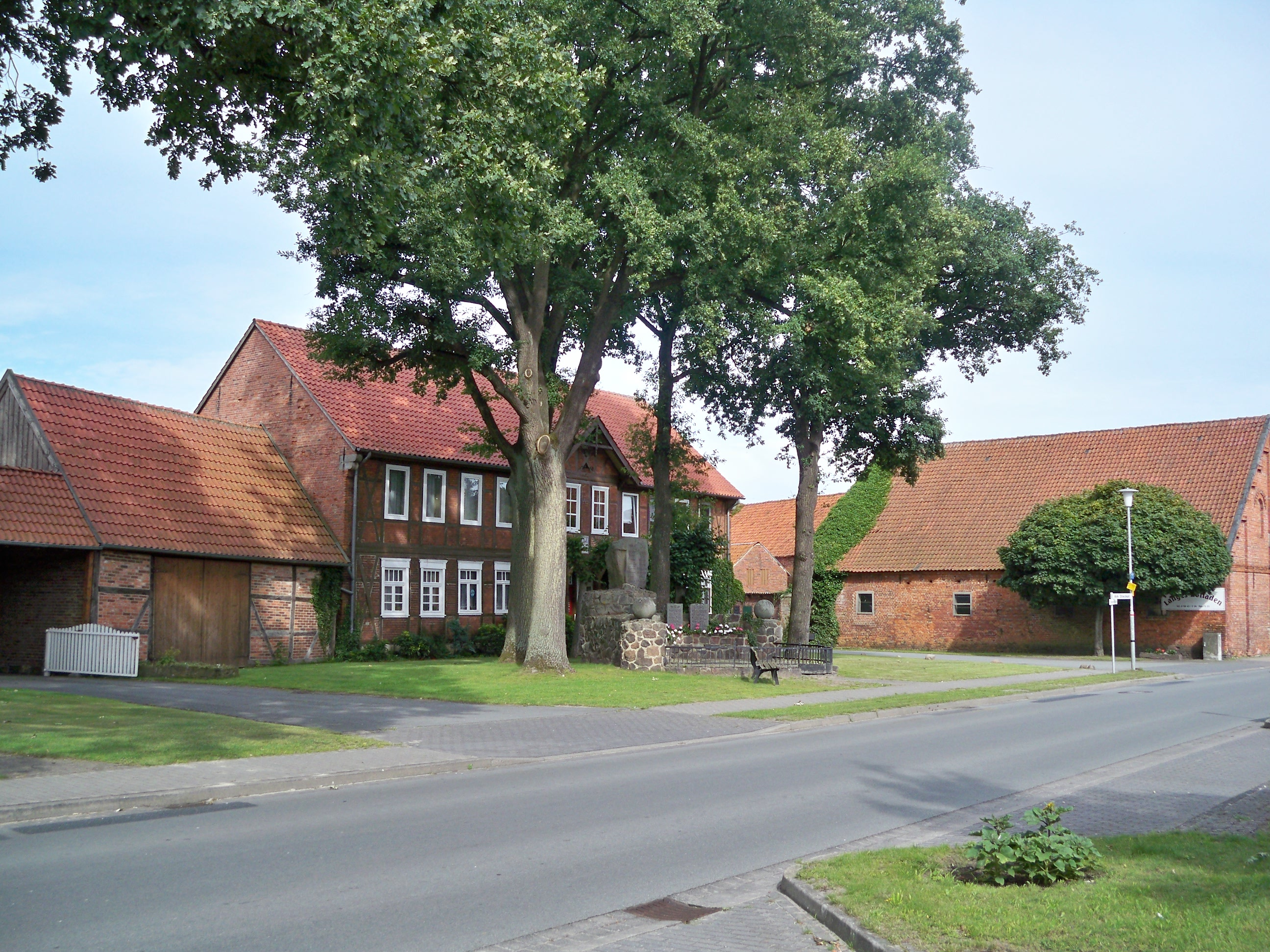 Zicherie, Lower Saxony, Village centre with war commemoration monuments